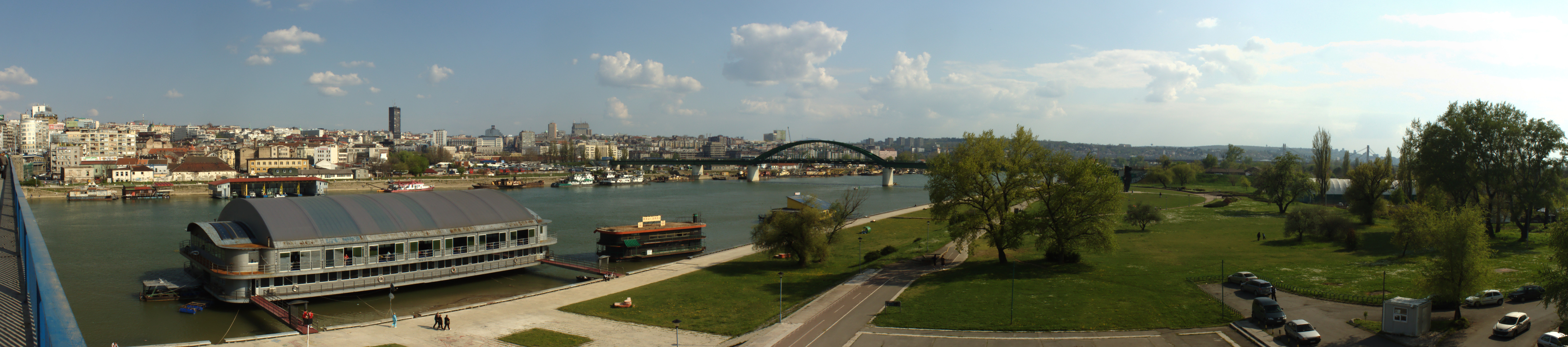 Panoramic view of Belgrade and Sava River from Brankov most bridge, Novi Beograd side, Serbia